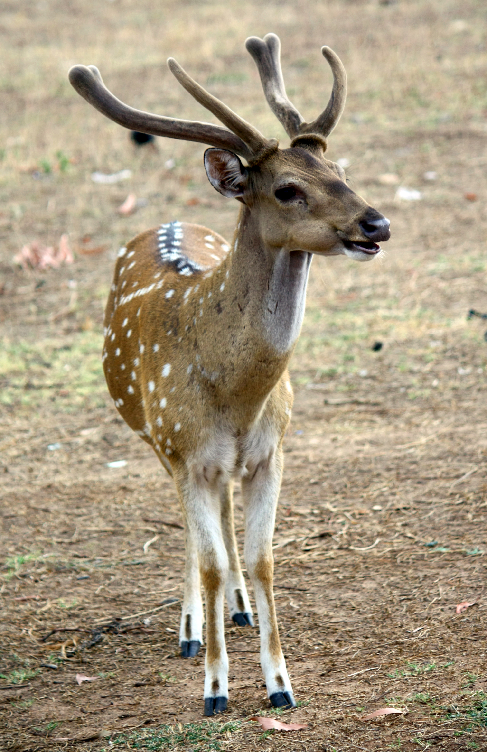 Sri Lankan axis deer (Axis axis ceylonensis)